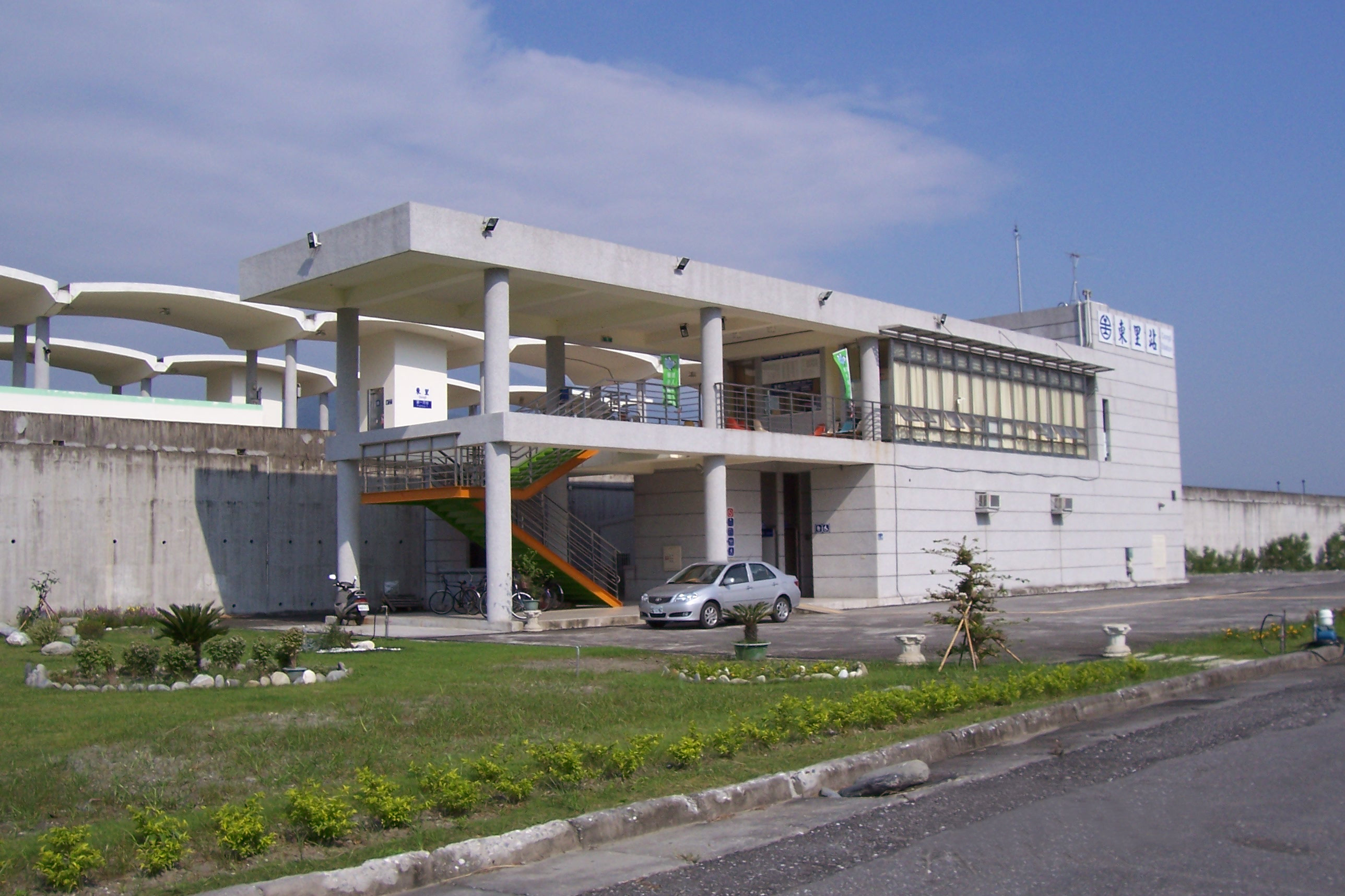 Taiwan Railway Administration Dongli Station